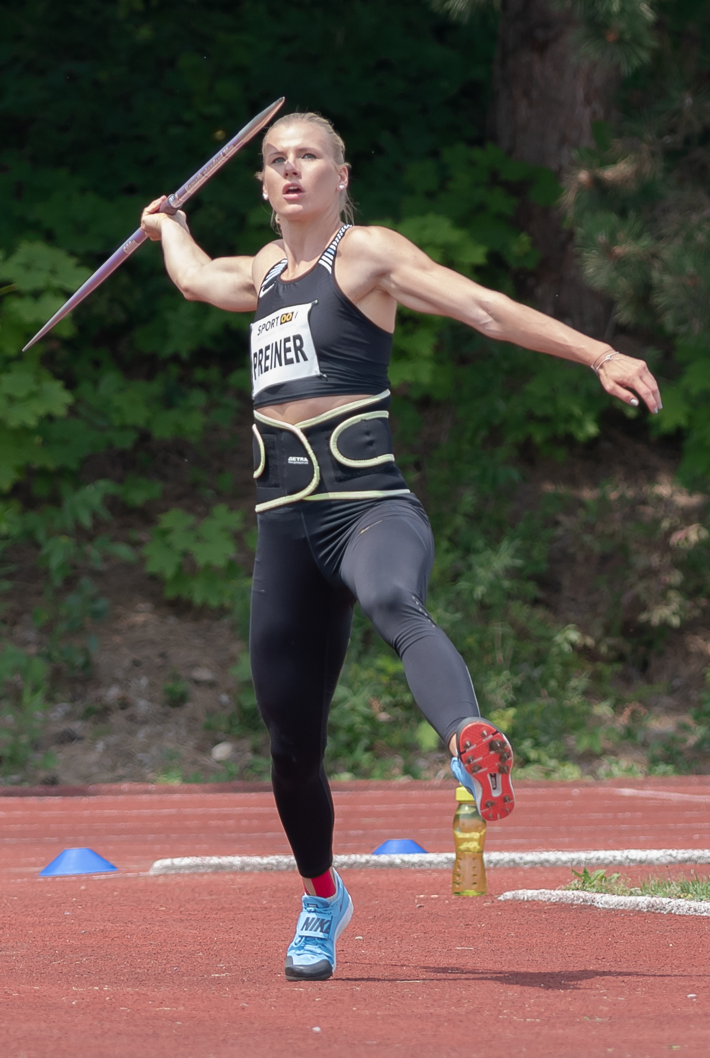 Leichtathletik Gala Linz 2018; women´s javlin throw; Preiner Verena, Union Ebensee (AUT)